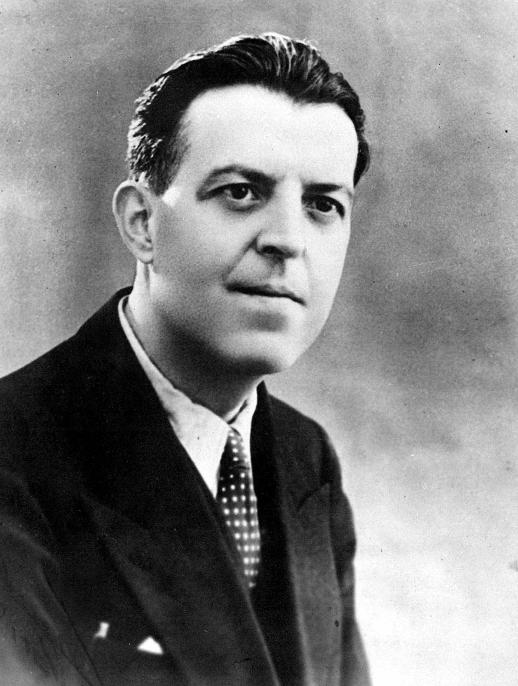 French composer Emile Goué (1904-1946)